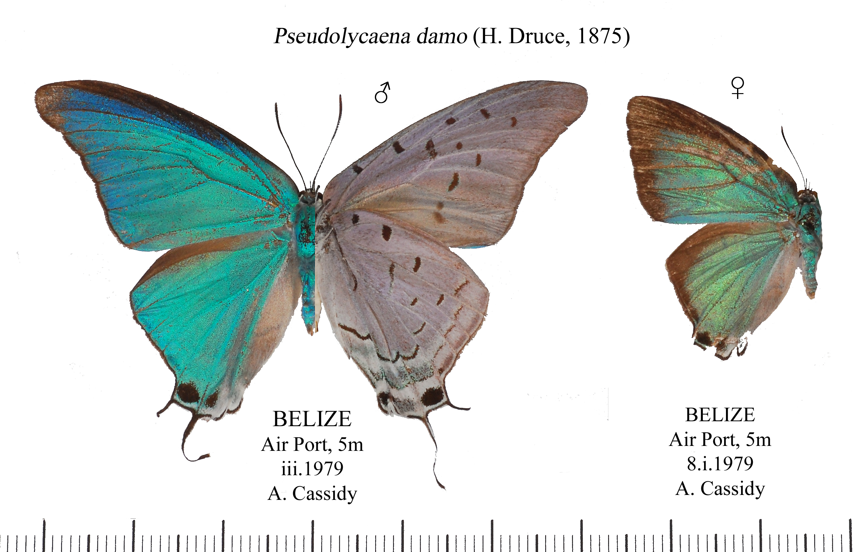 Pseudolycaena damo, male, female, Belize, Alan Cassidy photo.